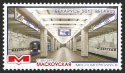 Minsk metro.